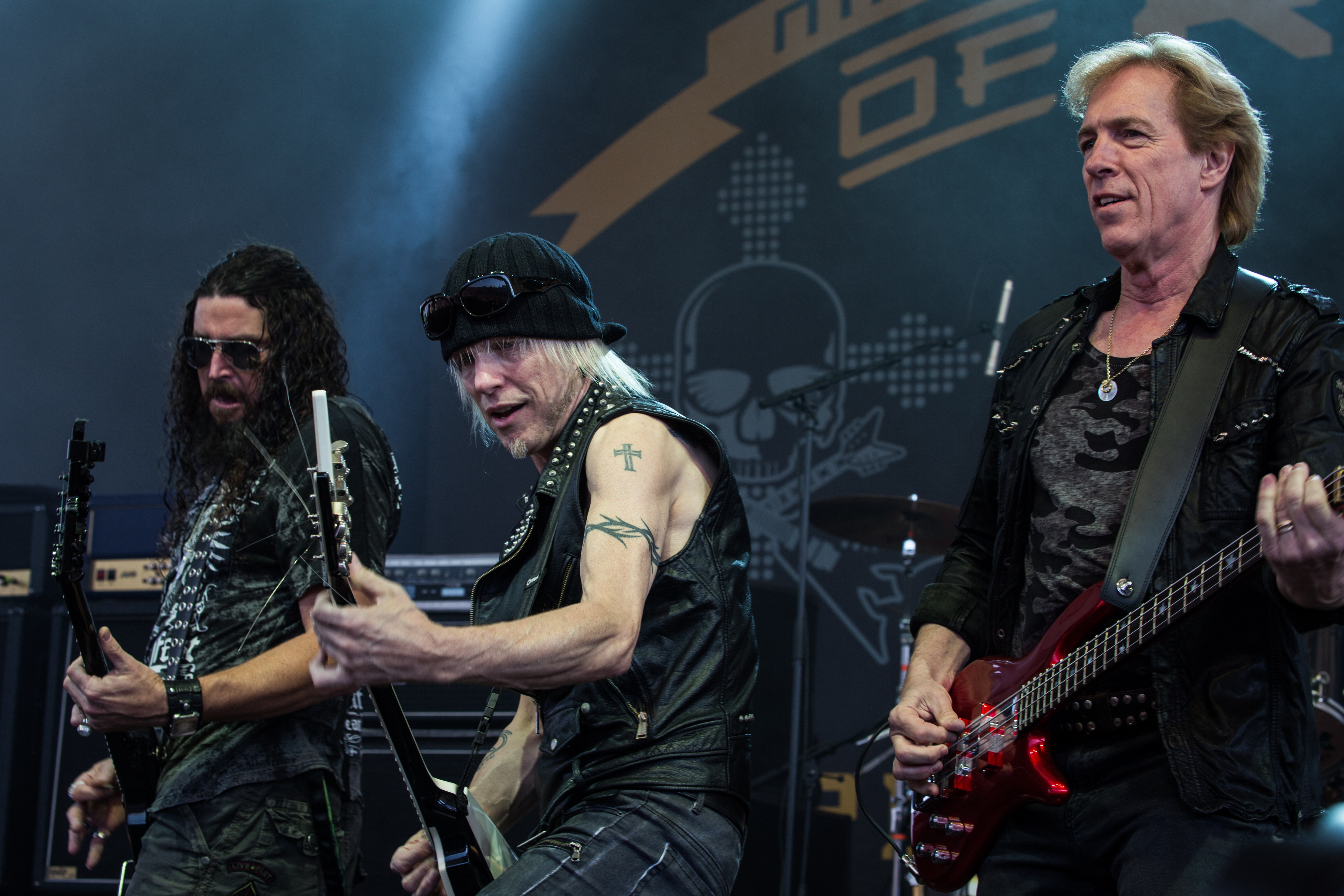 Michael Schenkers Temple of Rock performing live at Rock Hard Festival, May 2015, Gelsenkirchen